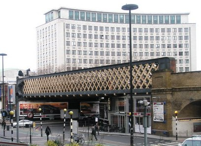 Lattice girder bridge carrying railway tracks from Waterloo east towards Hungerford Bridge